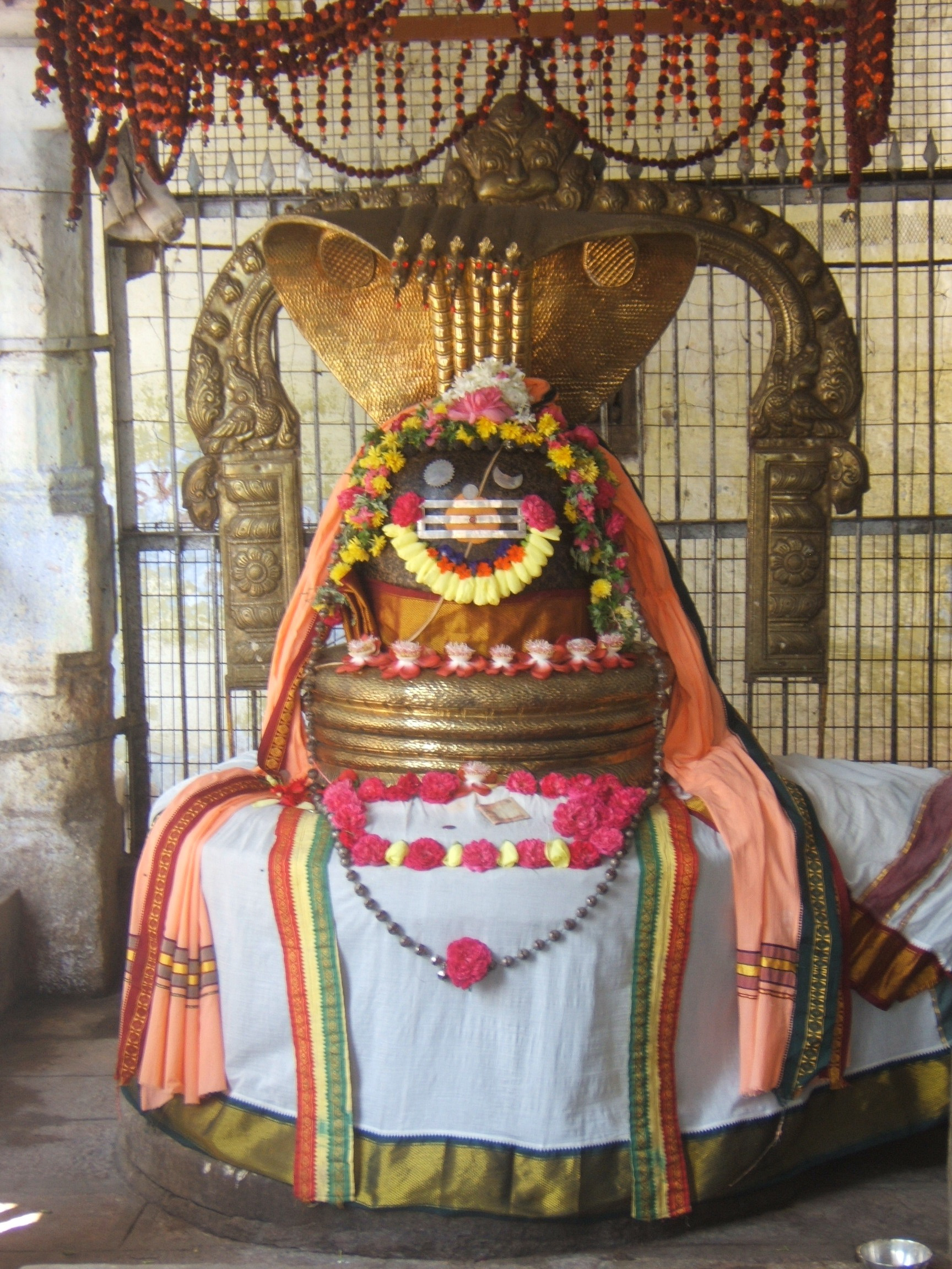 Siva Lingam. This Siva Limgam is called as Kubera Lingam. at Jambukesvara temple in Srirangam